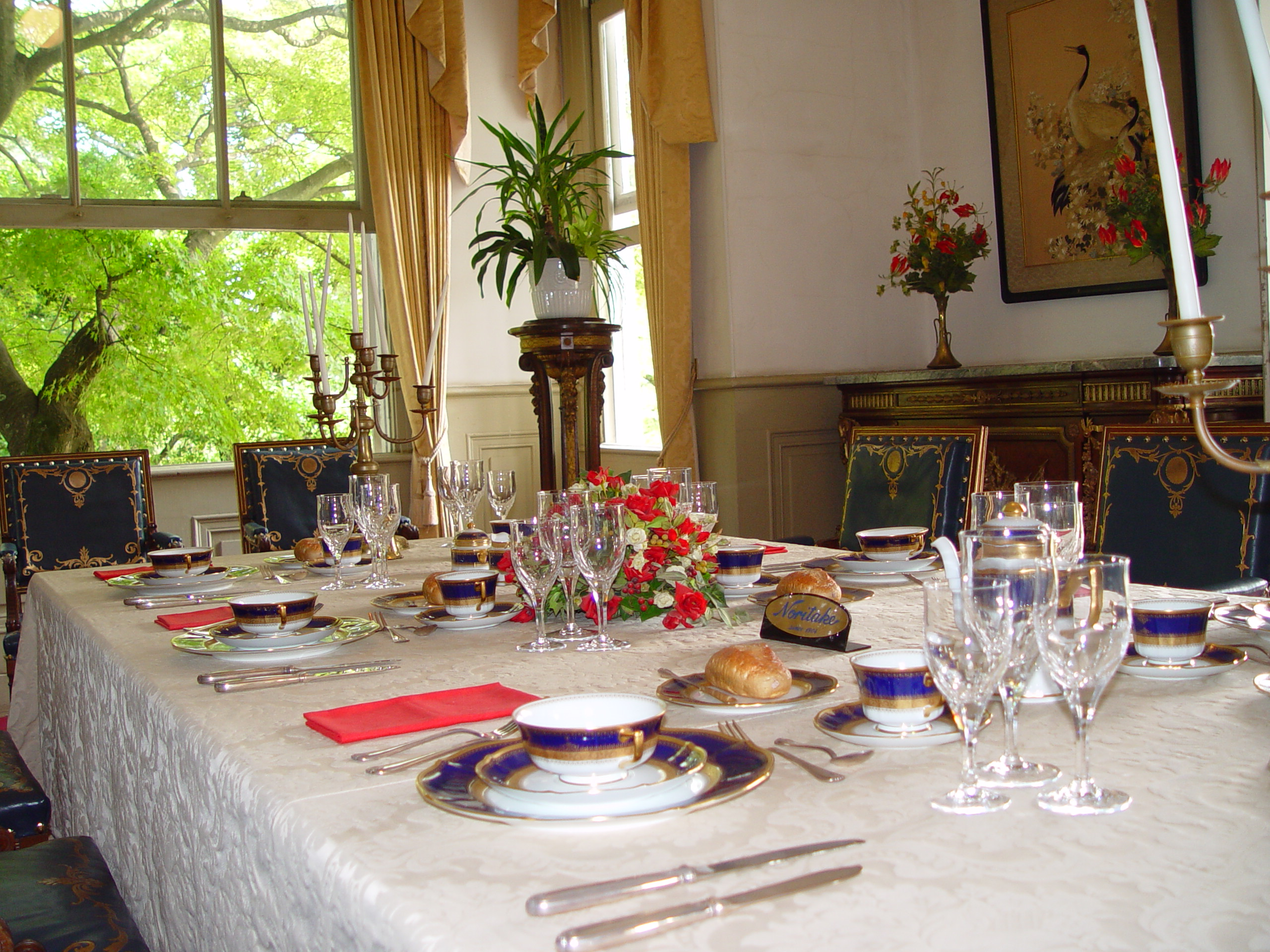 Table with Noritake China